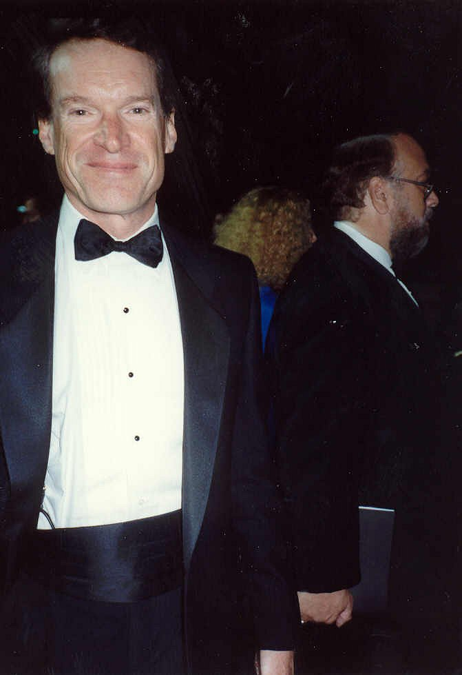 Charles Kimbrough of Murphy Brown as he leaves the 41st Annual Emmy Awards, 9/17/89